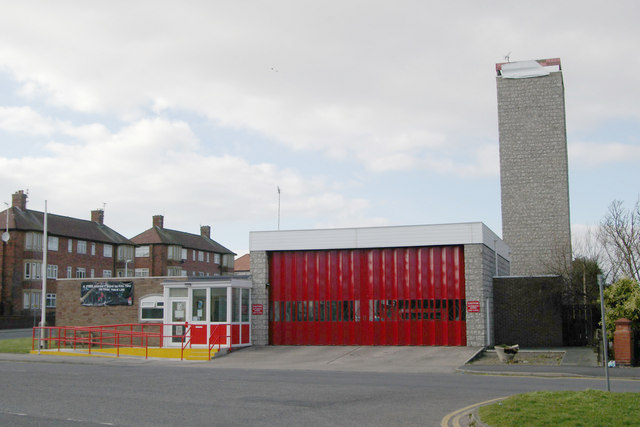 Bispham Fire Station. Bispham Fire Station, Redbank Road, Bispham, Lancashire.